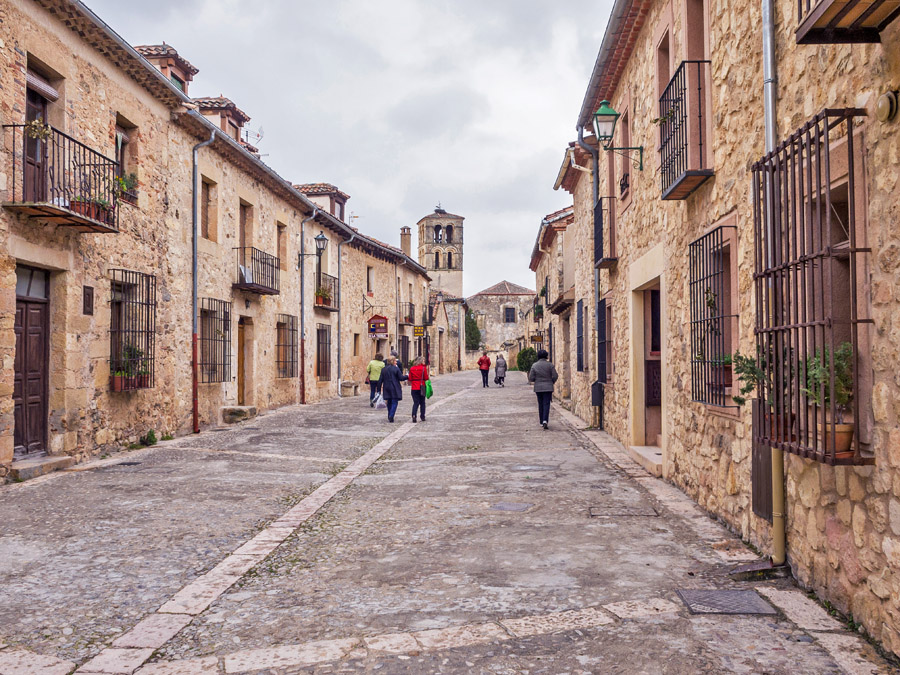 Iglesia de San Juan en Pedraza. Conjunto histórico.